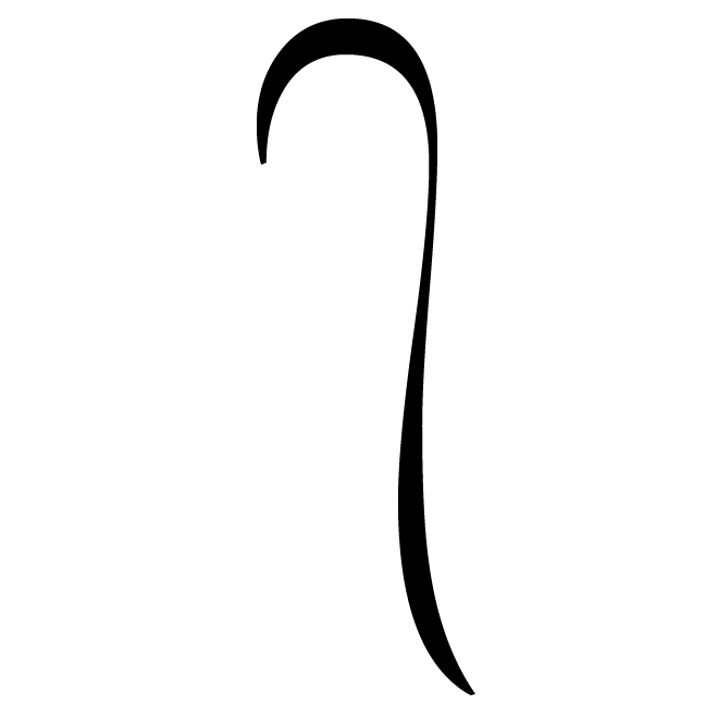 Balinese letters, called adeg-adeg